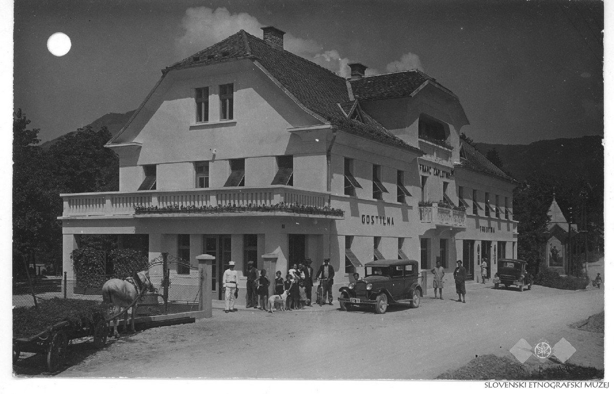 Postcard of Križe, Tržič